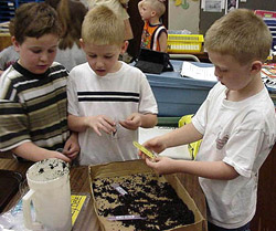 Central Illinois students conduct an exercise to learn about germination.